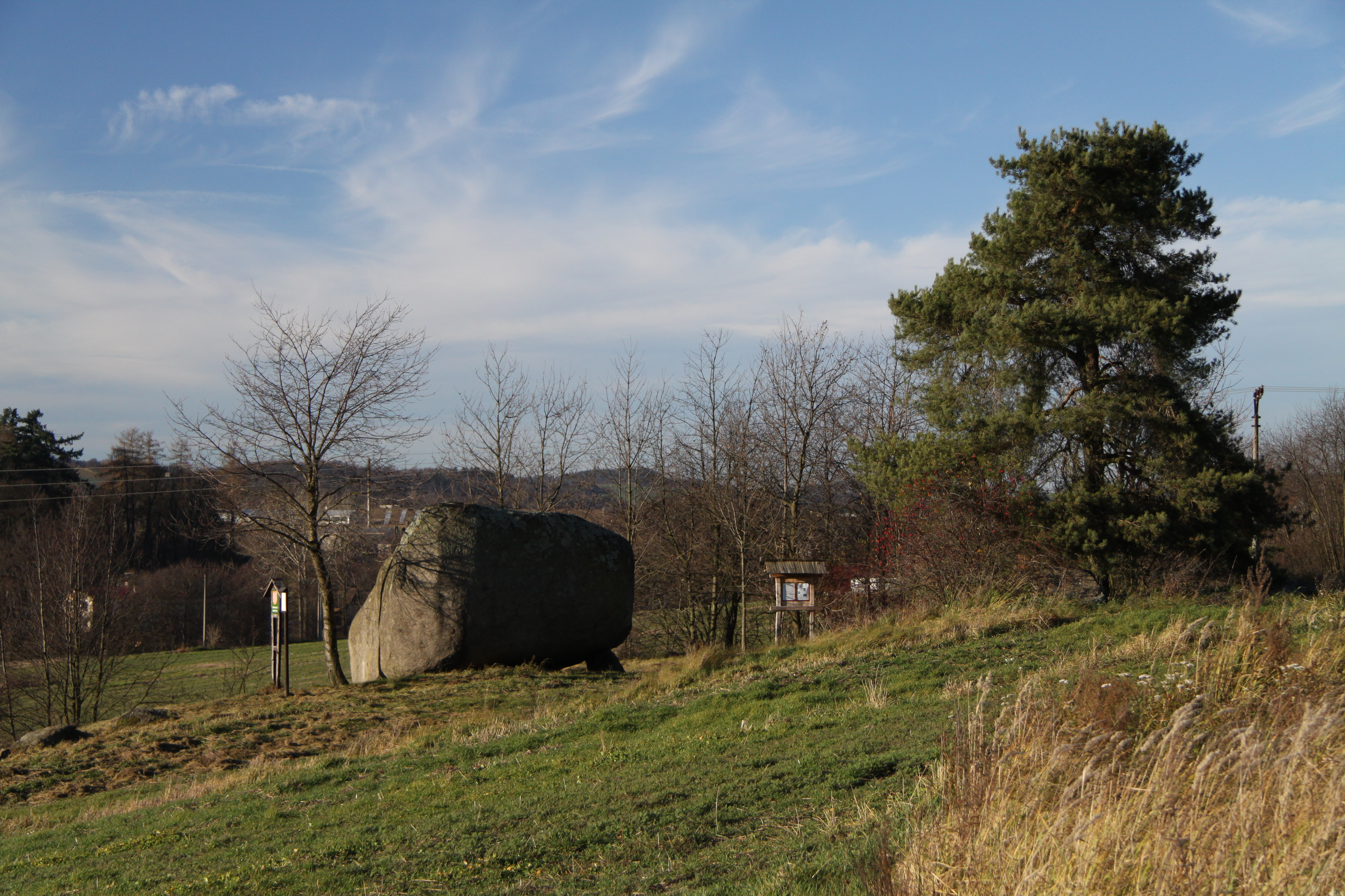 Natural monument Vrškámen south-eastern from Petrovice, Příbram District, Czech Republic - Google Maps - Google Earth